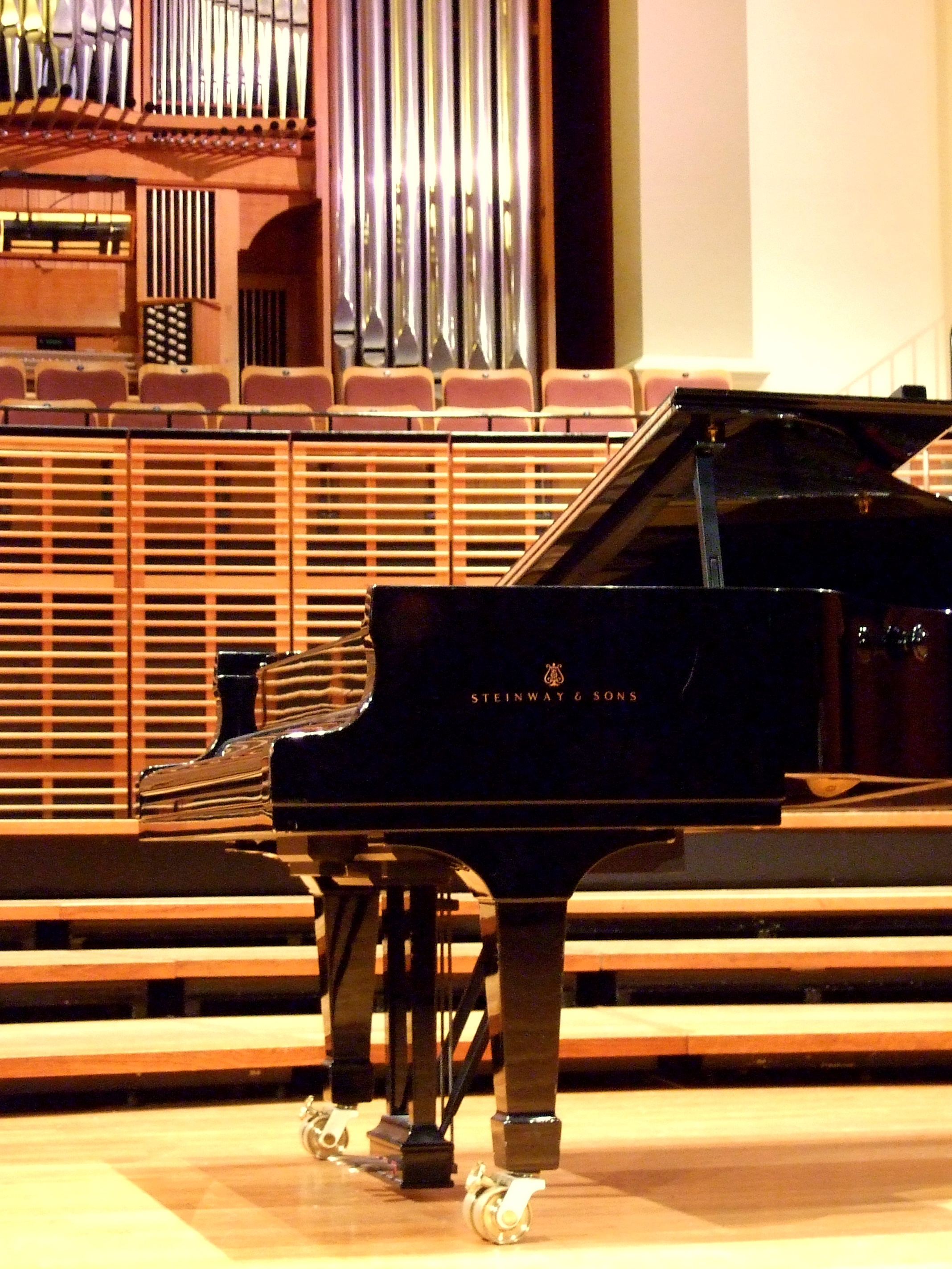 A Steinway & Sons Piano, in the Vebrugghen Hall of the Sydney Conservatorium of Music.